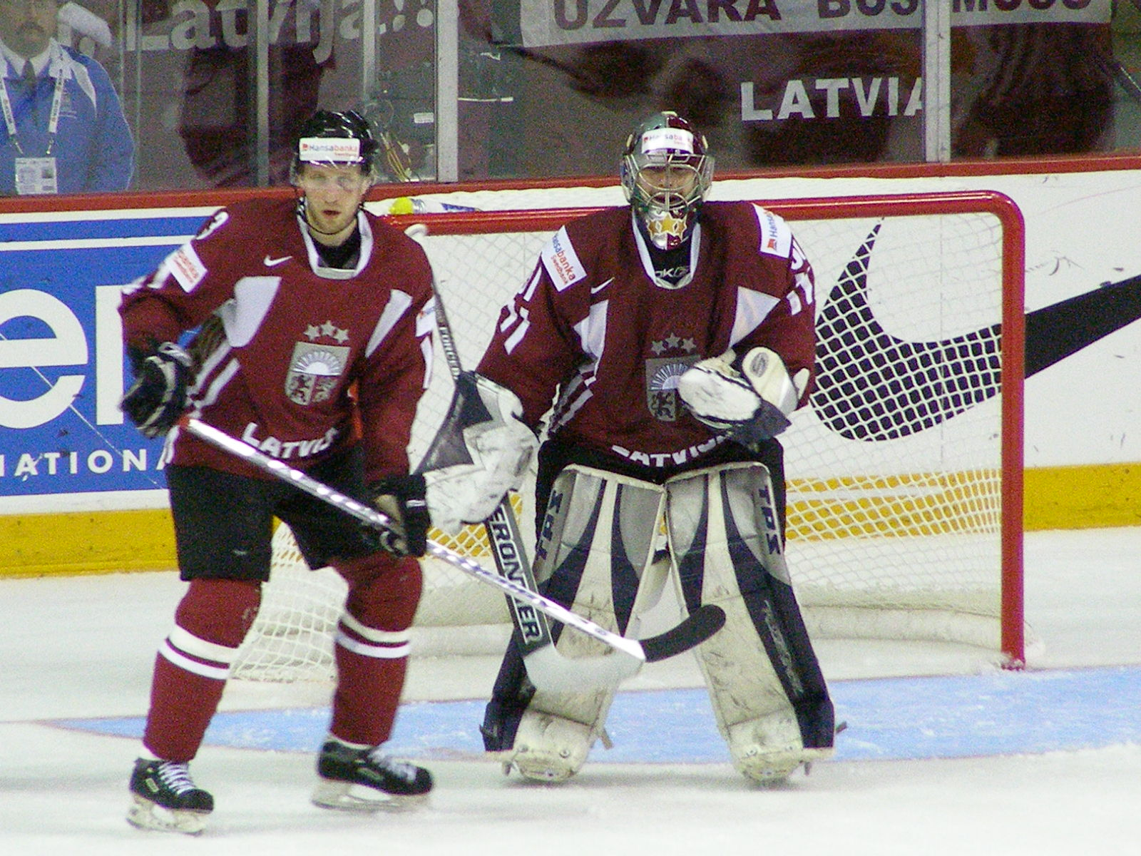 Edgars Masaļskis&Arvīds Reķis/Latvia VS USA (IIHF World Hockey Championship in Halifax NS, May 2 2008)/